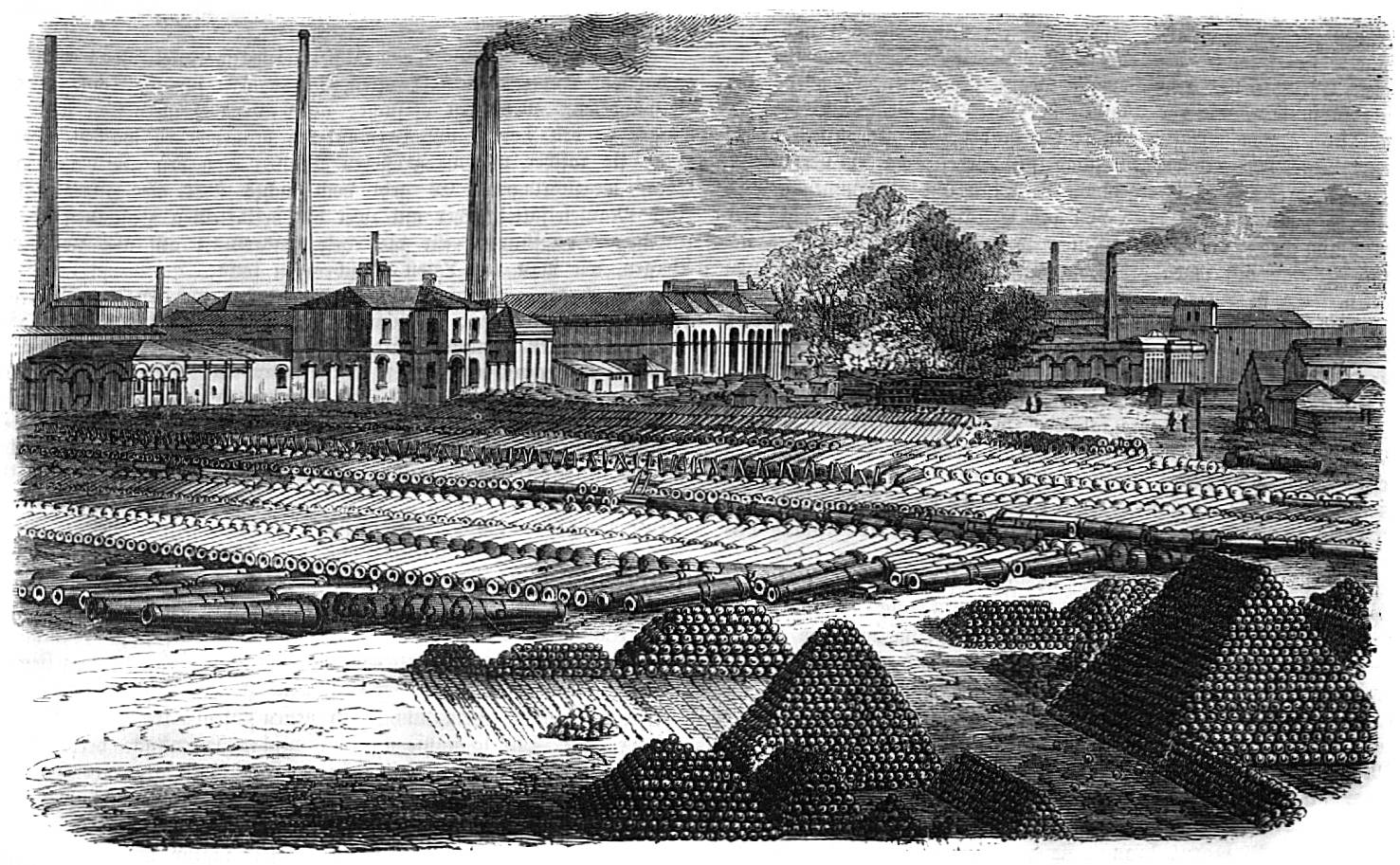 caption: "Die englische Kriegswerkstatt zu Woolwich."